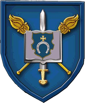 Shoulder Sleeve Insignia of the Kyiv Bohun Military Lyceum